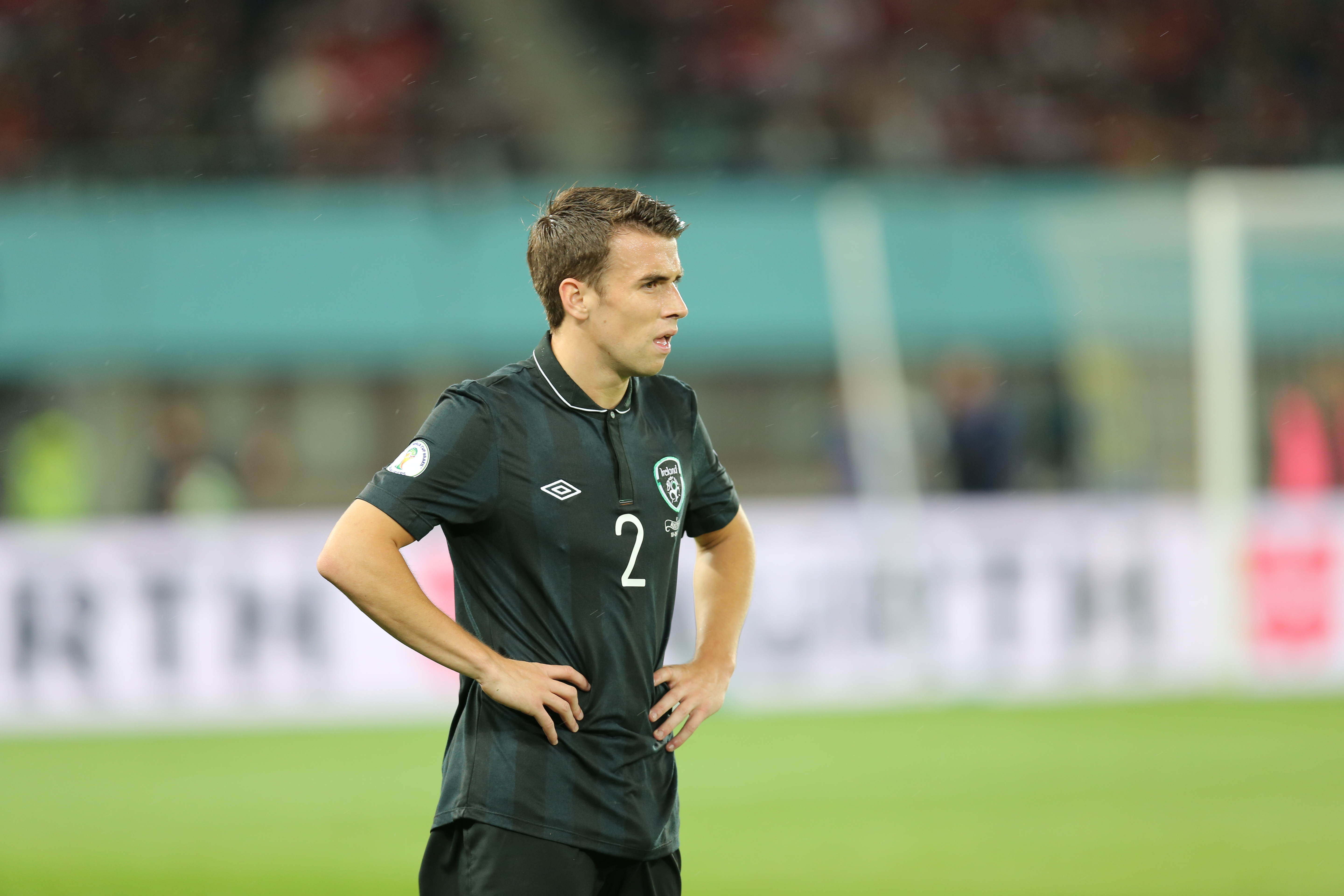 2014 FIFA World Cup qualification (UEFA), Group C: Republic of Ireland national football team at 10. September 2013 before the match against the Austria national football team (0:1) in the Ernst-Happel-Stadion in Vienna. Here: Séamus Coleman, irish defender The making of this work was supported by Wikimedia Austria. For other files made with the support of Wikimedia Austria, please see the category Supported by Wikimedia Österreich.